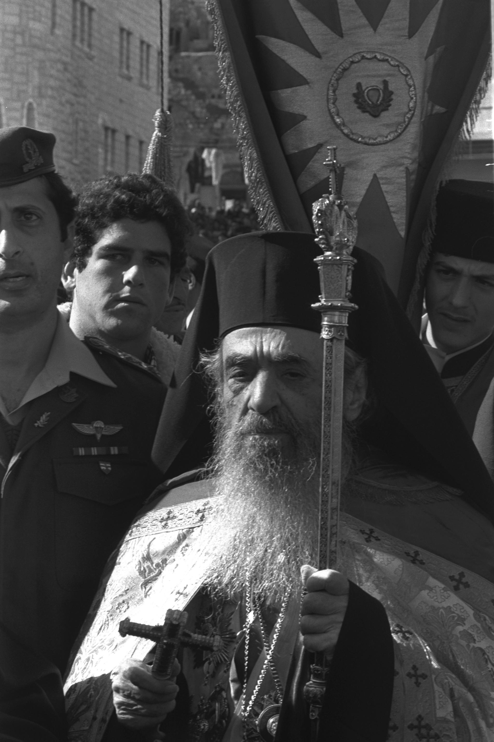 The orthodox Christmas in Bethlehem. In the photo, Greek orthoodox patriarch Benedictus (06/01/1978) חג המולד האורתודוכסי בבית לחם. בצילום, הארכיבישוף היווני בנדיקטוס Photo: Moshe Milner (1946–) Alternative names Miylner, Moše; Milner, Mosheh; Moshé Milner; Milner, M.; Mîlner, Moše; Miylner, MošehDescriptionIsraeli photographerצלם ישראליDate of birth 1946 Location of birth Germany Authority control : Q28750411 VIAF: 100999744 ISNI: 0000 0001 0804 0507 LCCN: n82072104 GND: 115699732 BNF: 15548788n WorldCat creator QS:P170,Q28750411 .